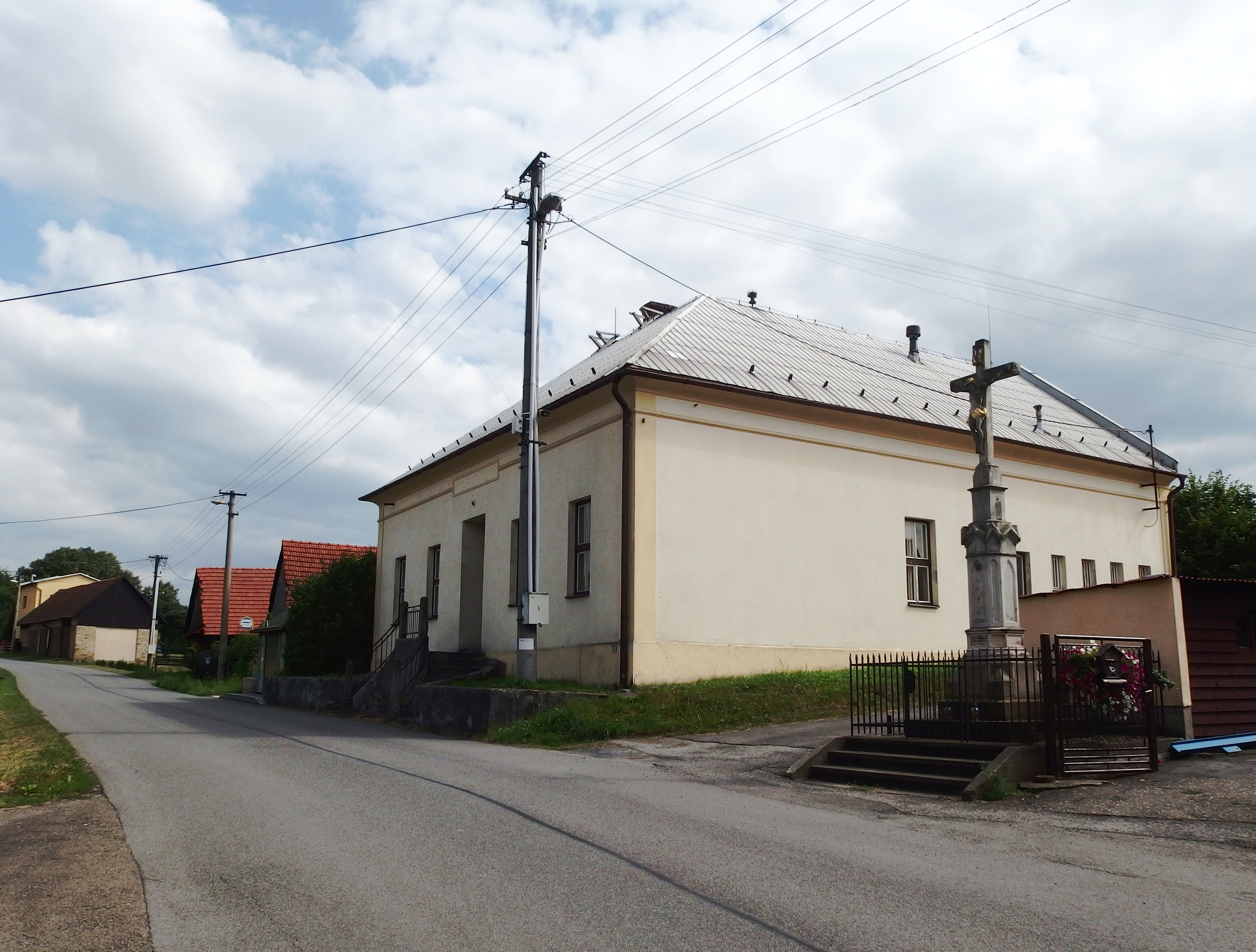 Lešná, Vsetín District, Czech Republic, part Mštěnovice.